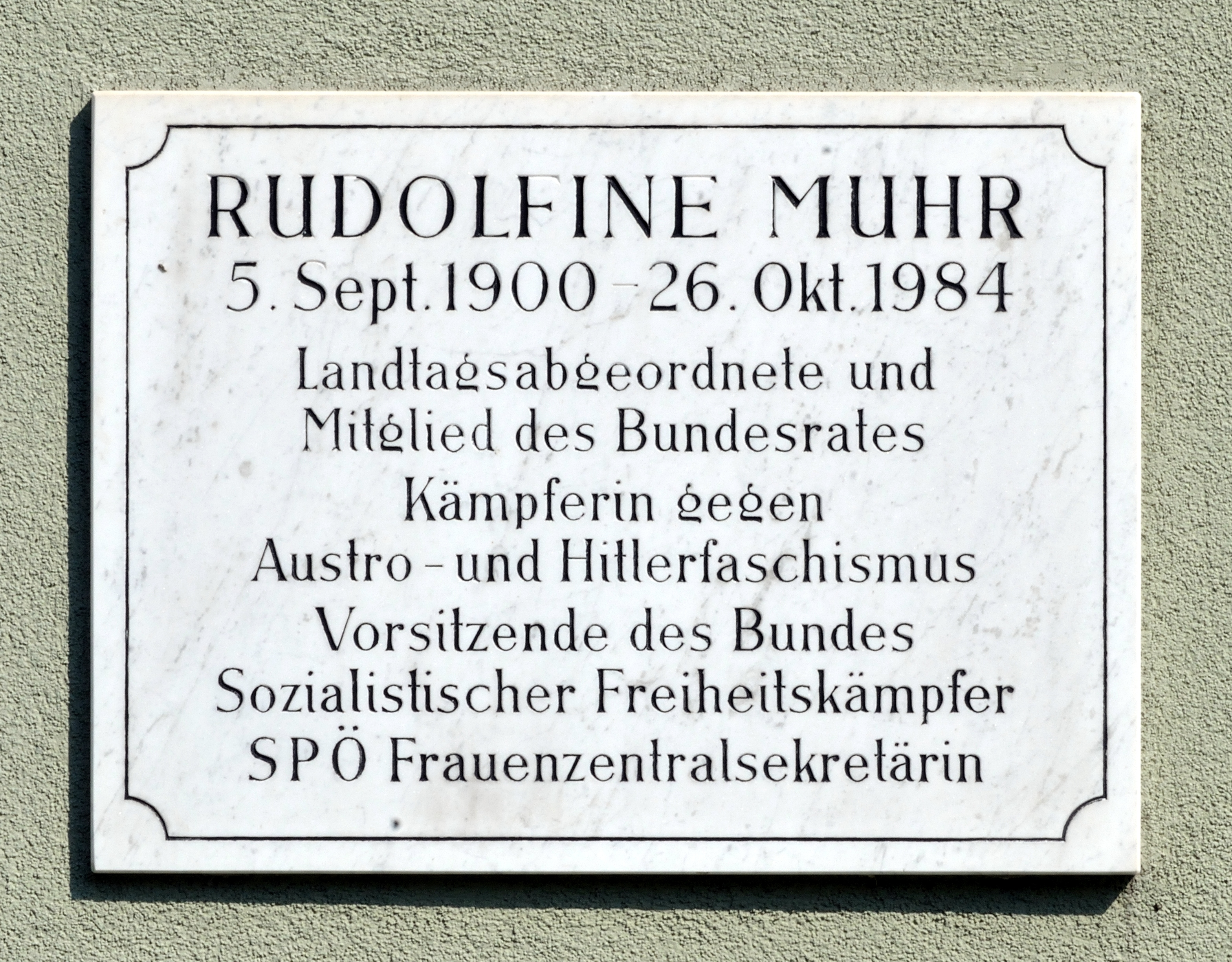 Memorial plaque for Rudolfine Muhr, at the Rudolfine-Muhr-Hof in Hietzing, Vienna.